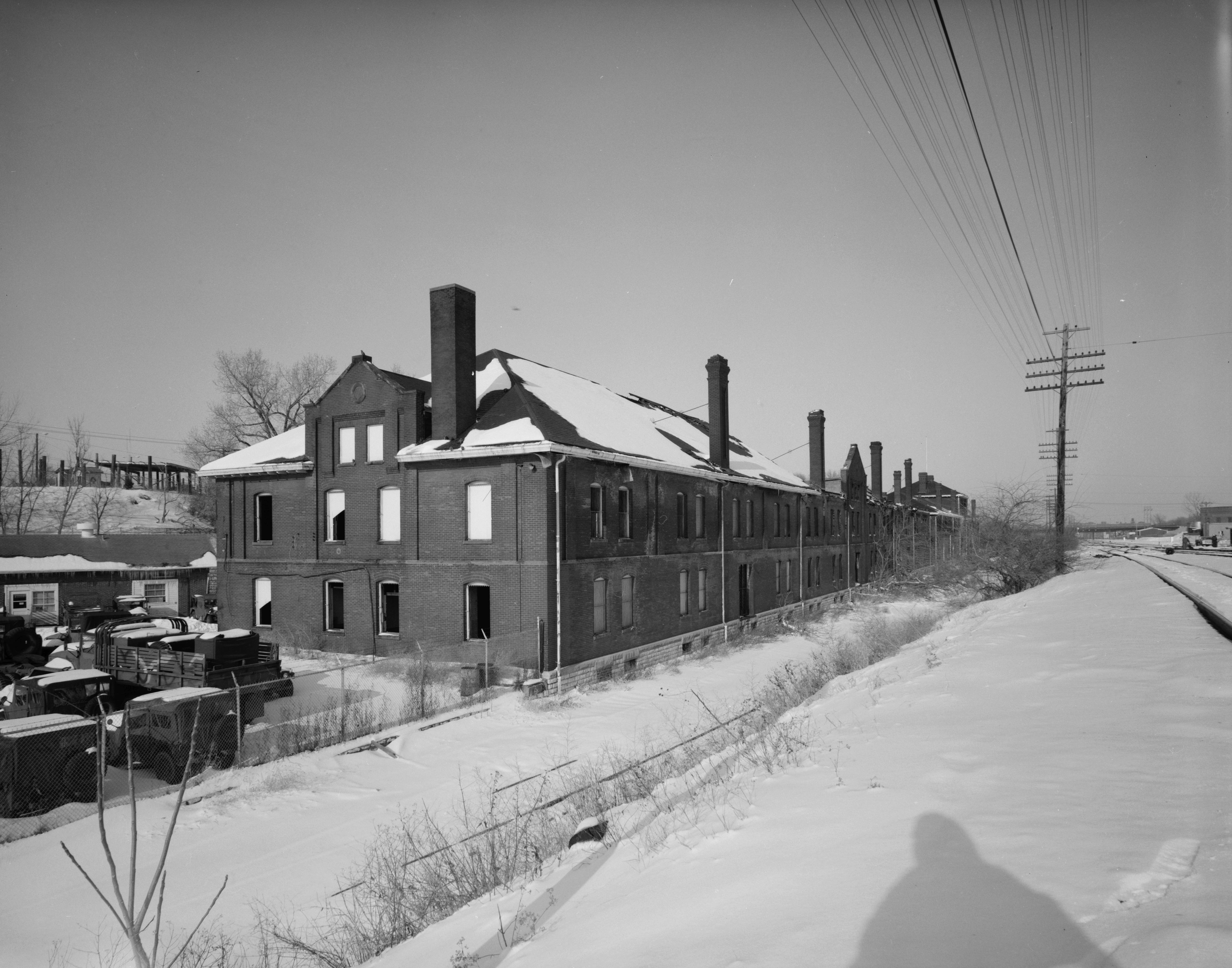 Exterior of the Omaha Quartermaster Depot, a former United States Army supply facility located at the intersection of Twenty-second and Woolworth Streets in Omaha, Nebraska, United States. It is the center of the Omaha Quartermaster Depot Historic District, which is listed on the National Register of Historic Places.